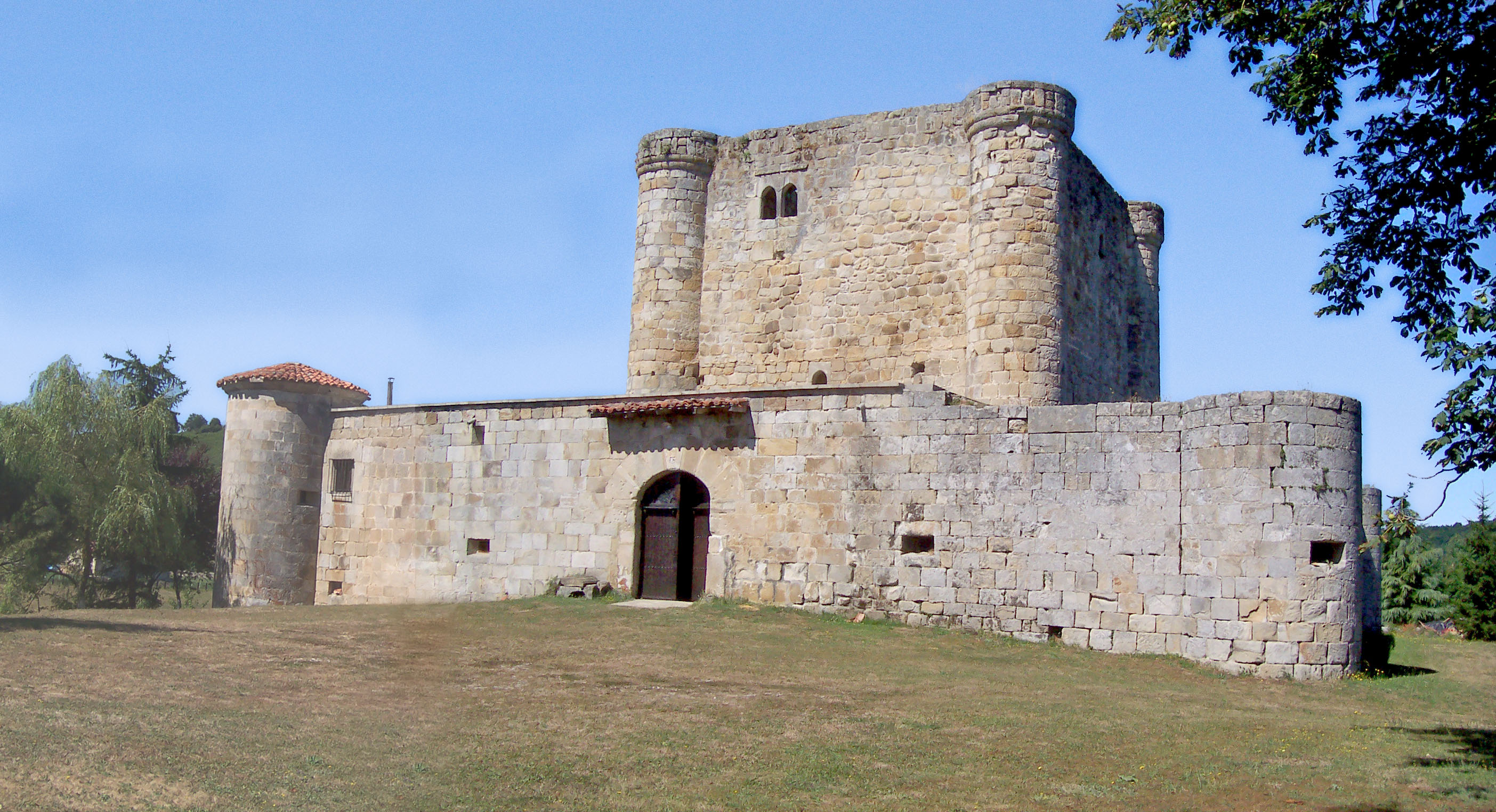 Castle of Virtus. Pictured at 2007-08-11